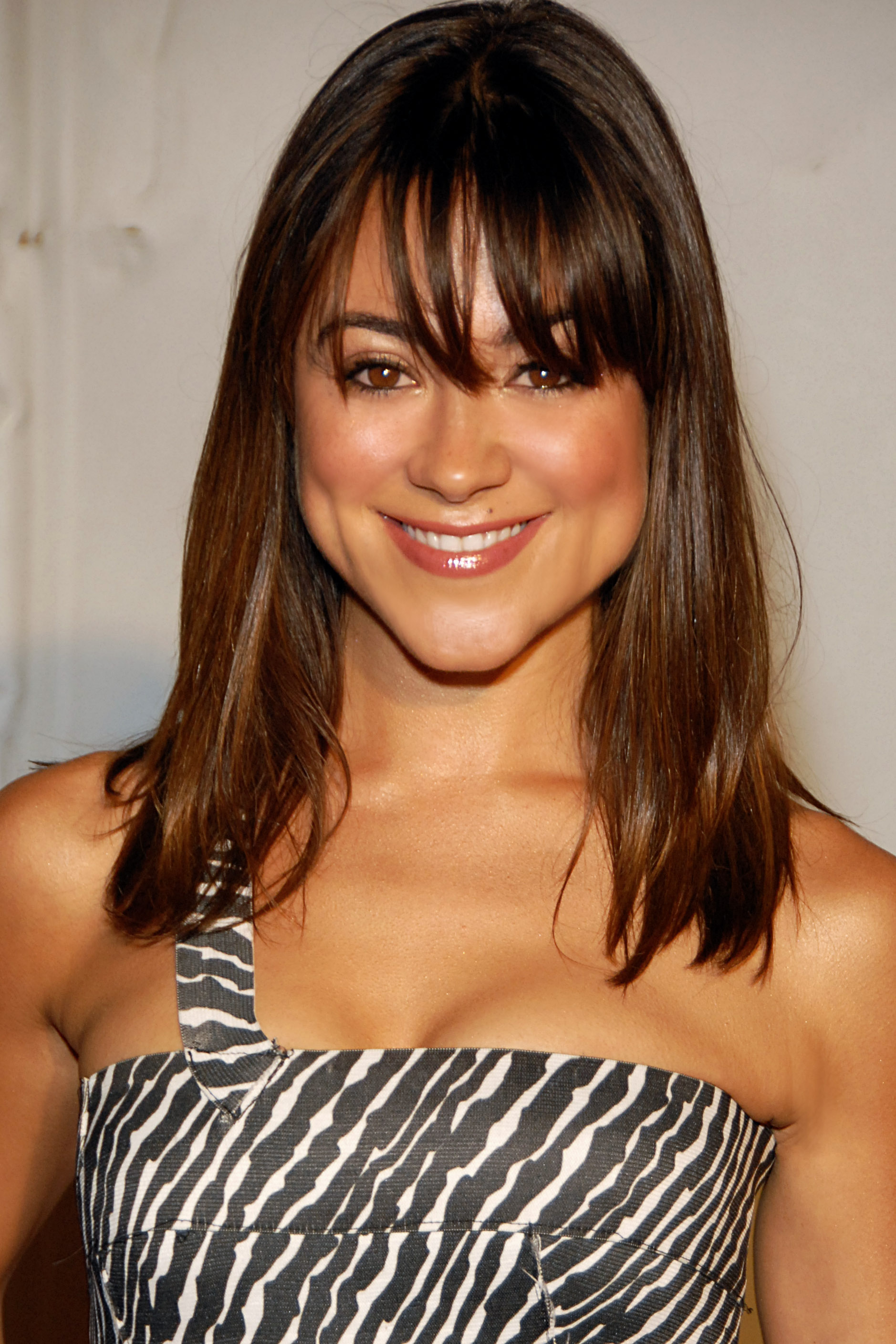 Camille Guaty attending Maxim Magazine's 10th Annual Hot 100 Celebration, Santa Monica, CA on May 13, 2009 - Photo by Glenn Francis of